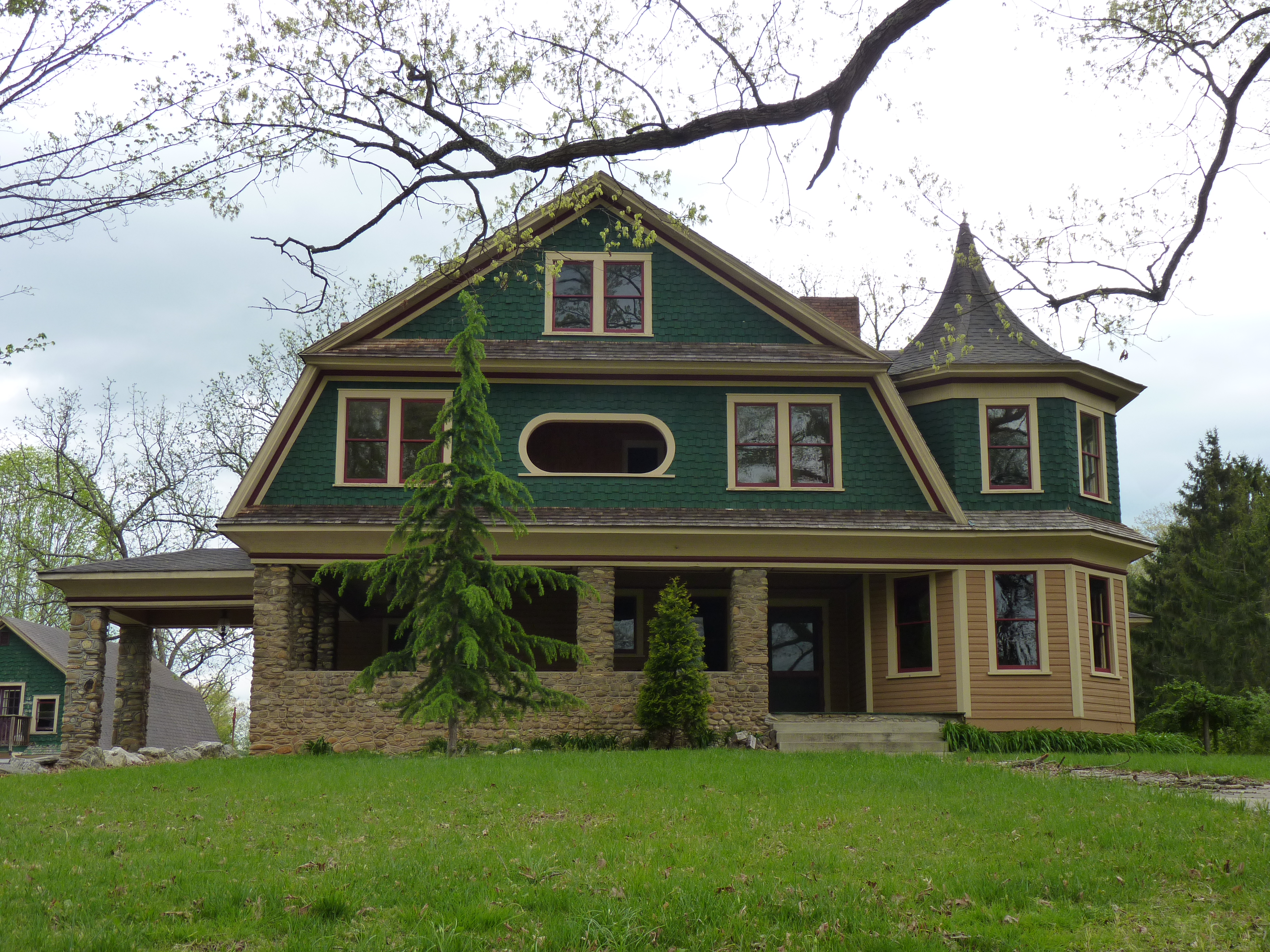 Former Alden and Thomasene Howell House.